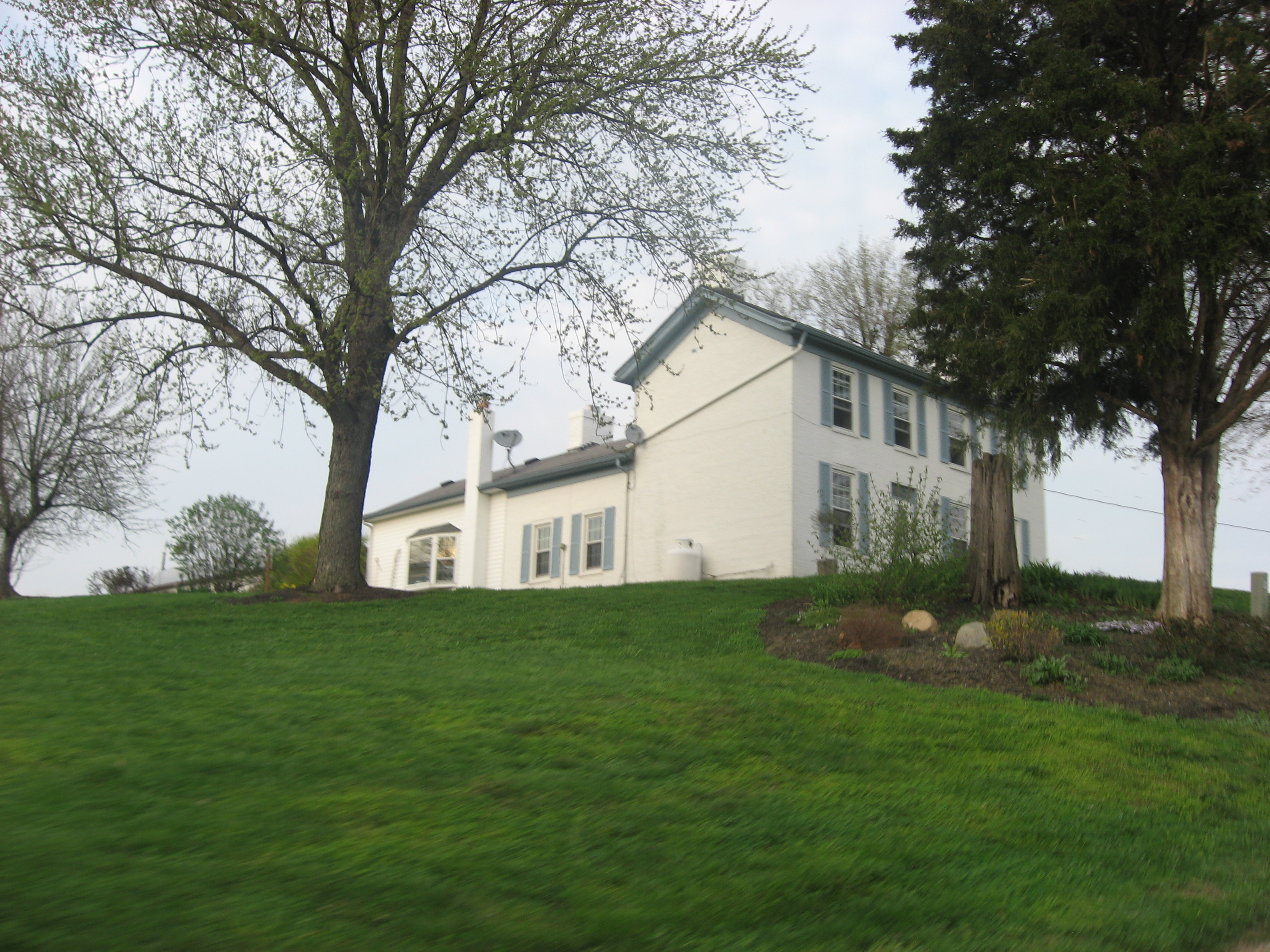 Front and western side of the farmhouse at the Salmon Turrell Farmstead, located at 3051 Snow Hill Road northwest of Rockdale in Whitewater Township, Franklin County, Indiana, United States. Built in 1820, the farmstead is listed on the National Register of Historic Places.